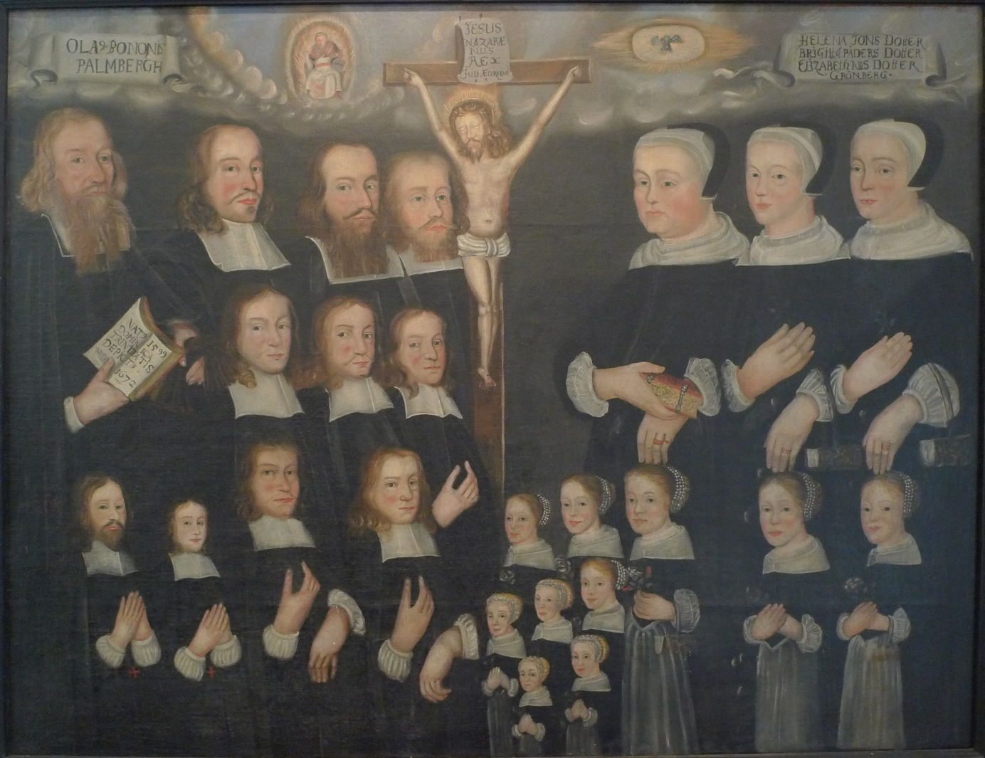 Olaus Bononis Palmberg with children